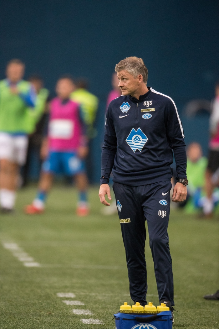 23.08.2018. Россия, Санкт-Петербург, стадион «Санкт-Петербург». Лига Европы УЕФА 2018/19, «Зенит» — «Мольде».